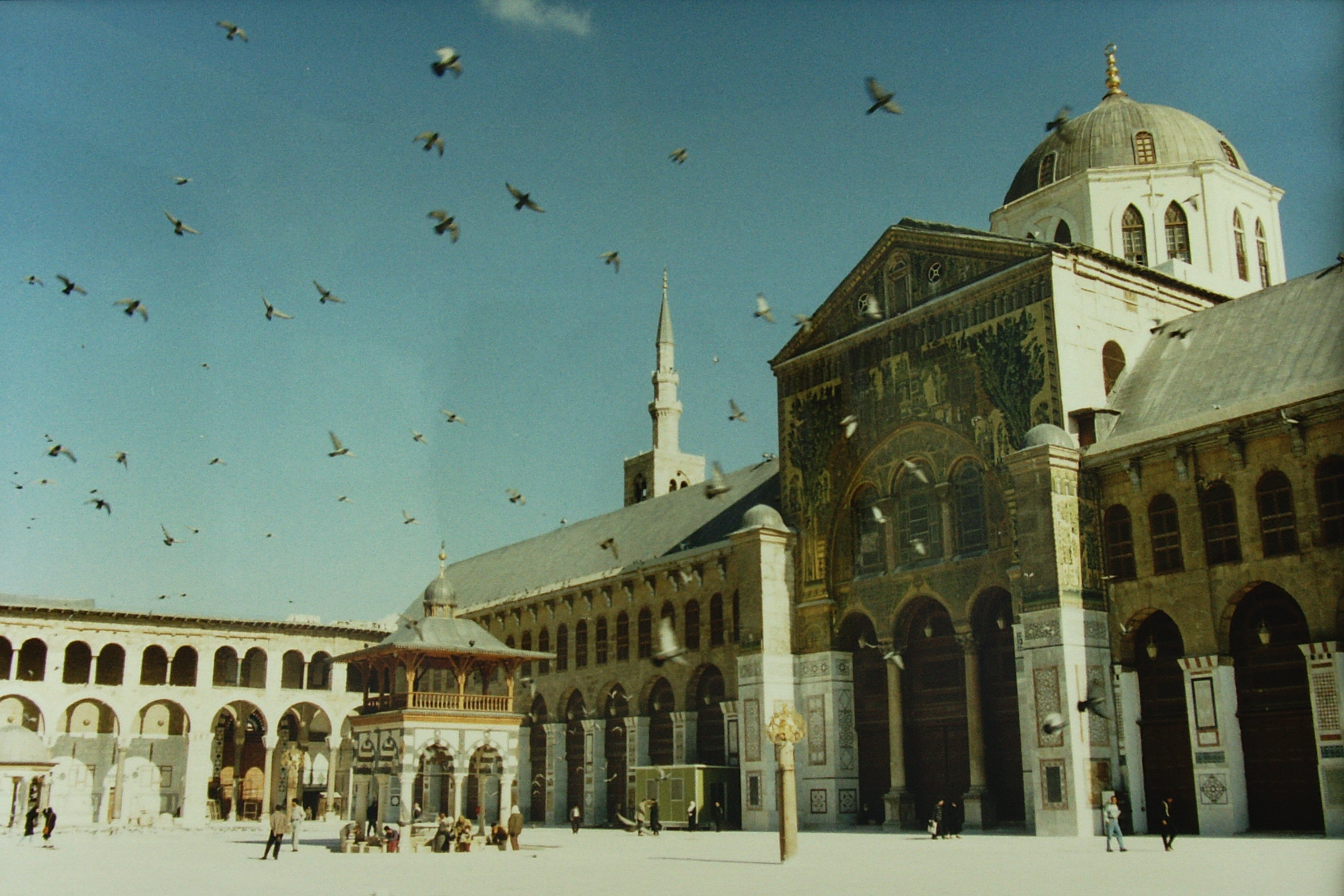 Birds in the courtyard of the Umayyad Mosque in Damascus, Syria.